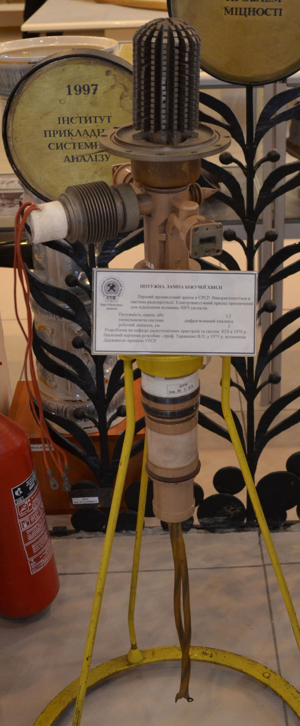 Traveling-wave tube